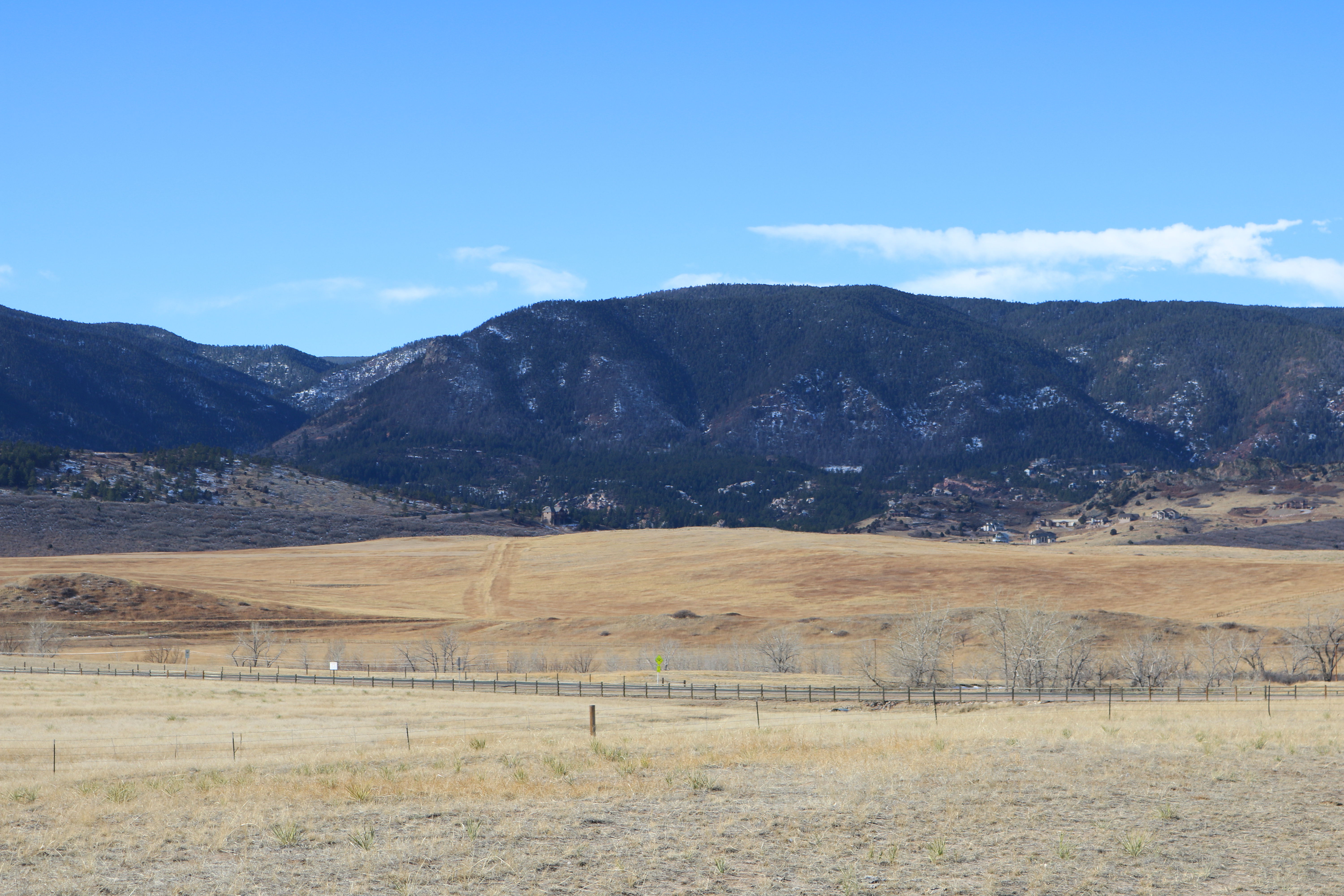 A view of Perry Park, in Douglas County, Colorado. The area is also called the West Plum Creek Valley. The mountains are part of the Rampart Range. The view is from Tomah Road looking southwest.